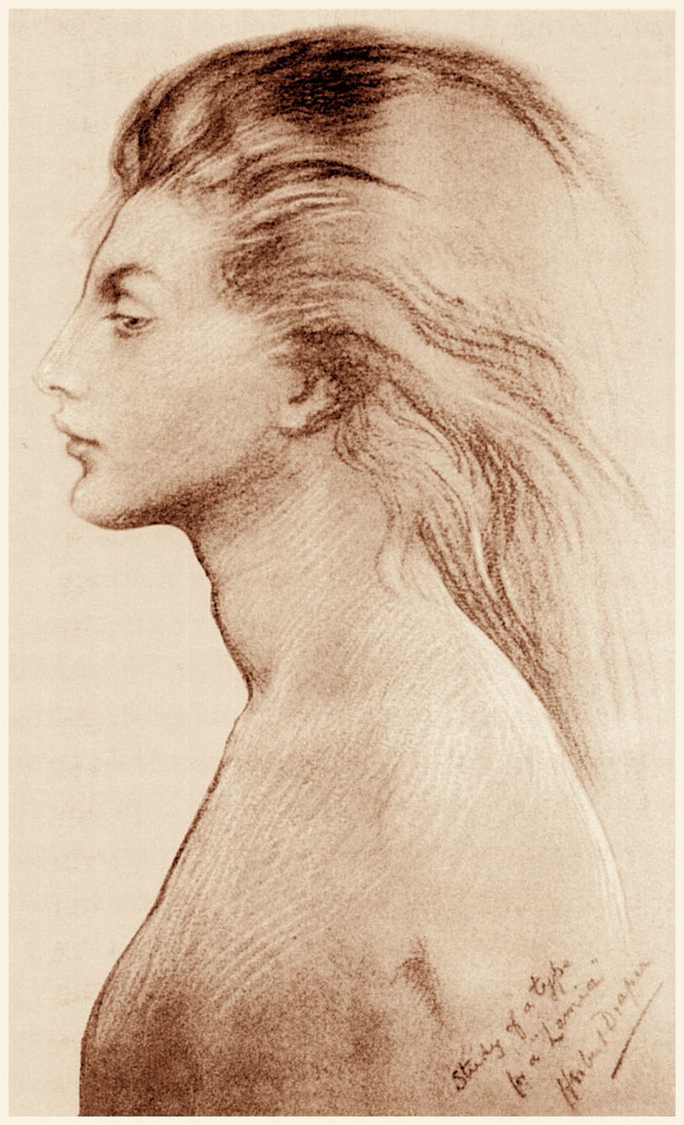 Study of Winifred Green